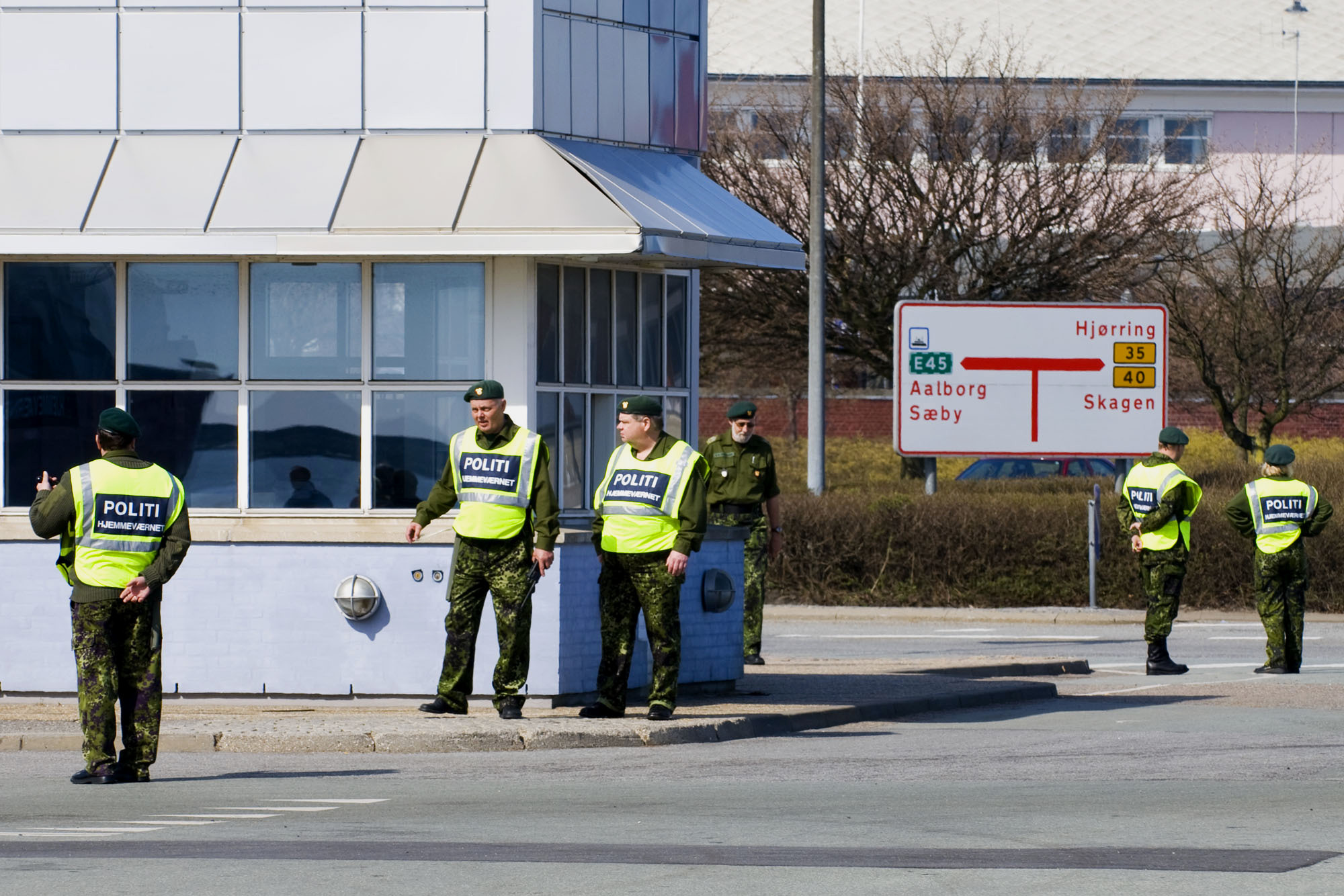 A group of danish Police Home Guard people performing traffic control duties